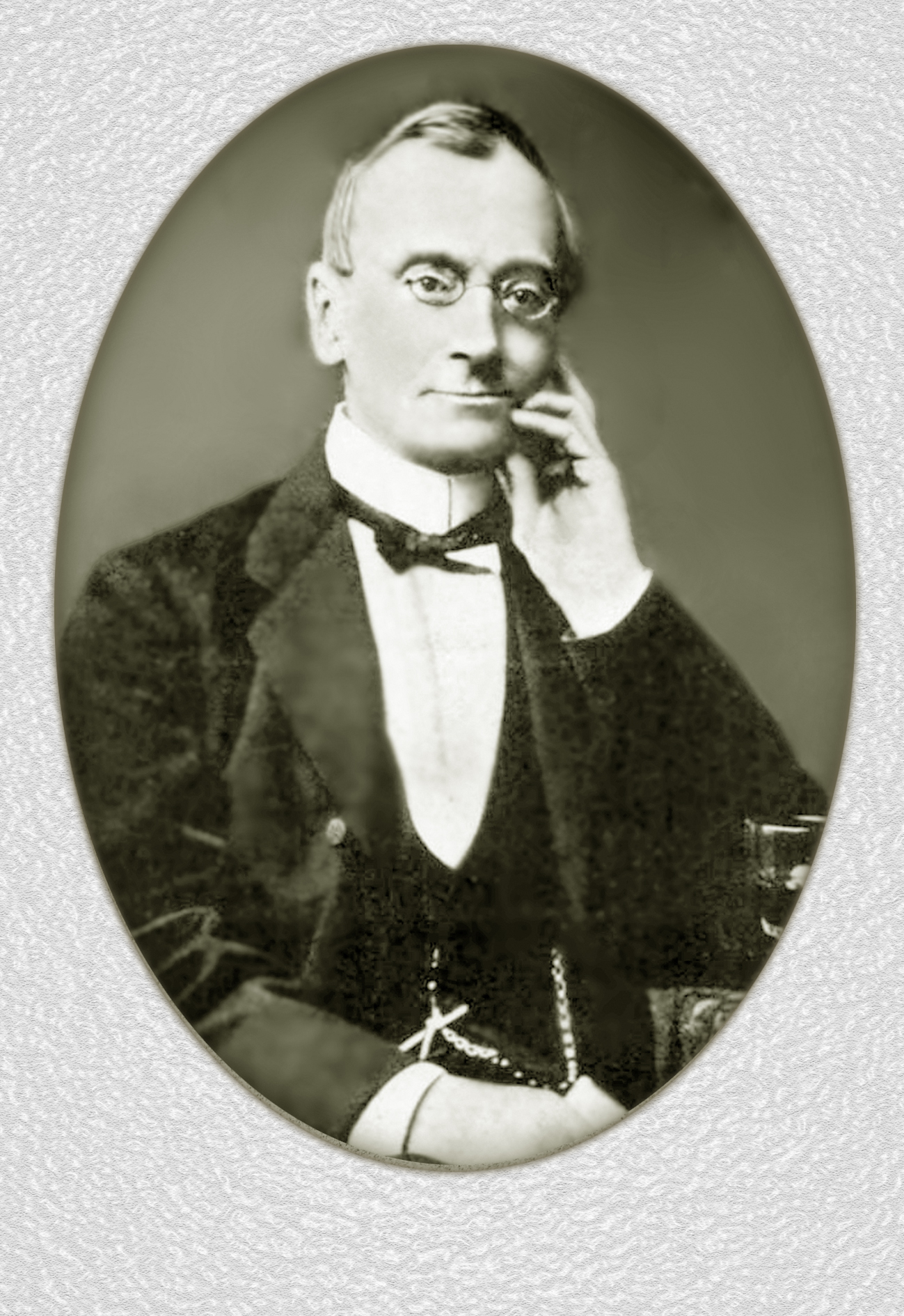 Victor Amadeus Hehn